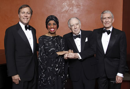 National Endowment for the Arts Chairman Dana Gioia and the first class of NEA Opera Honorees: diva Leontyne Price, composer and librettist Carlisle Floyd, and impresario Richard Gaddes. Not included in the photo was the fourth honoree, conductor James Levine.